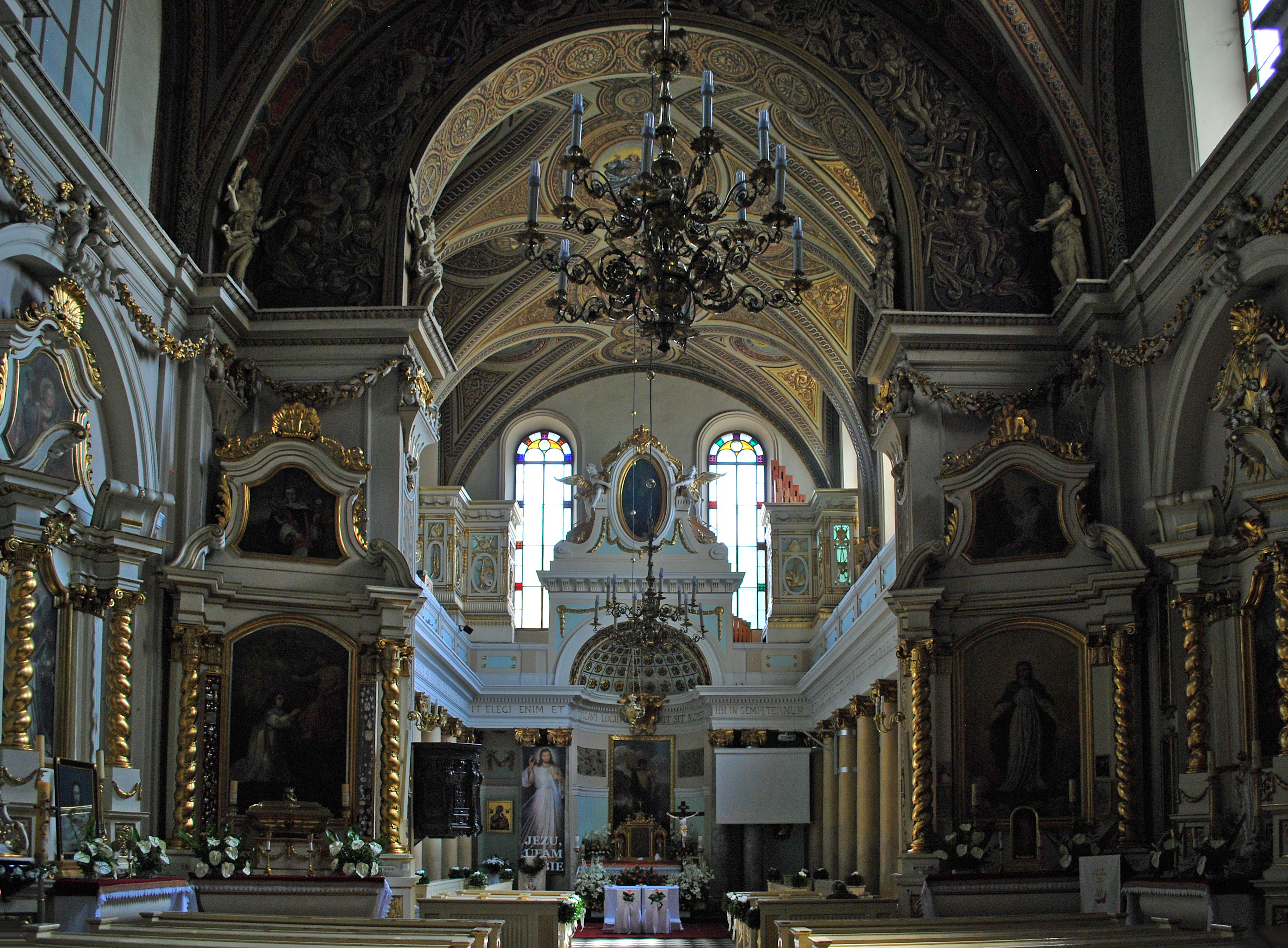 Church of St.Augustine and St.John the Baptist (interior), 88 Kosciuszki str, Salwator, Krakow, Poland